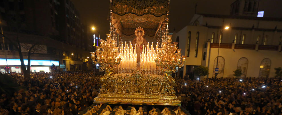 La Esperanza de Málaga